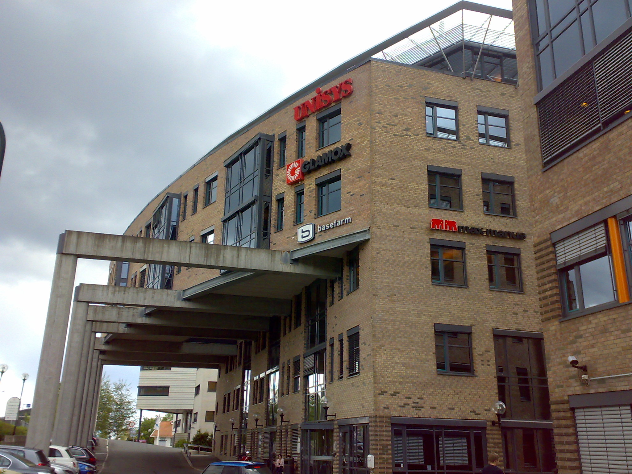 Unisis headquarters, Oslo, Norway